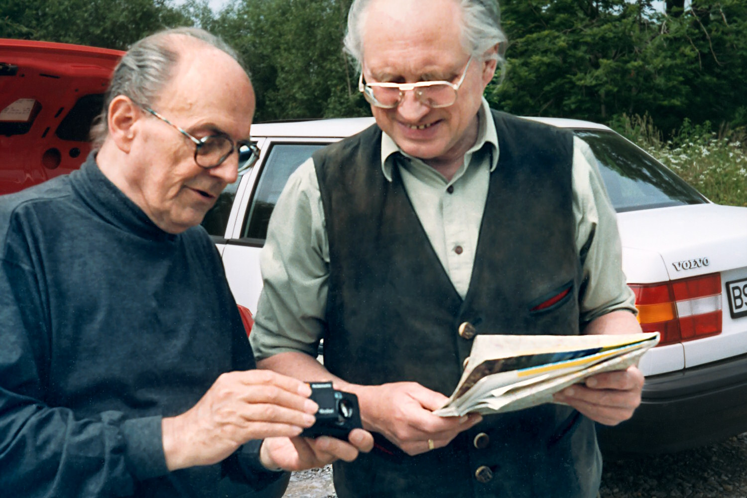 Heinz Waaske (left), explaining the Rolleimatic camera he constructed to Albert Rümenapf sen. (right)